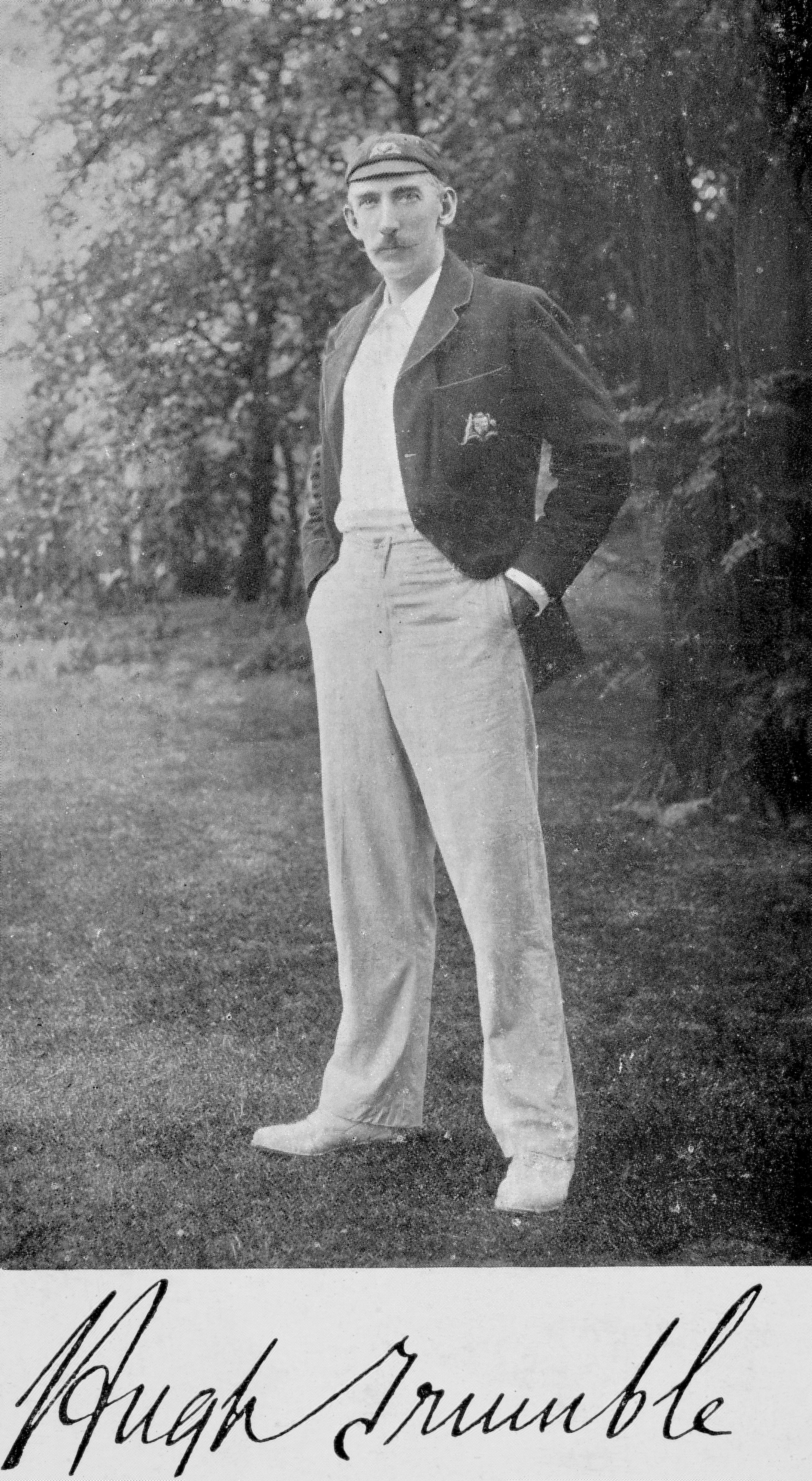 Autographed picture of former Australian cricketer Hugh Trumble, from a 1907 postcard.